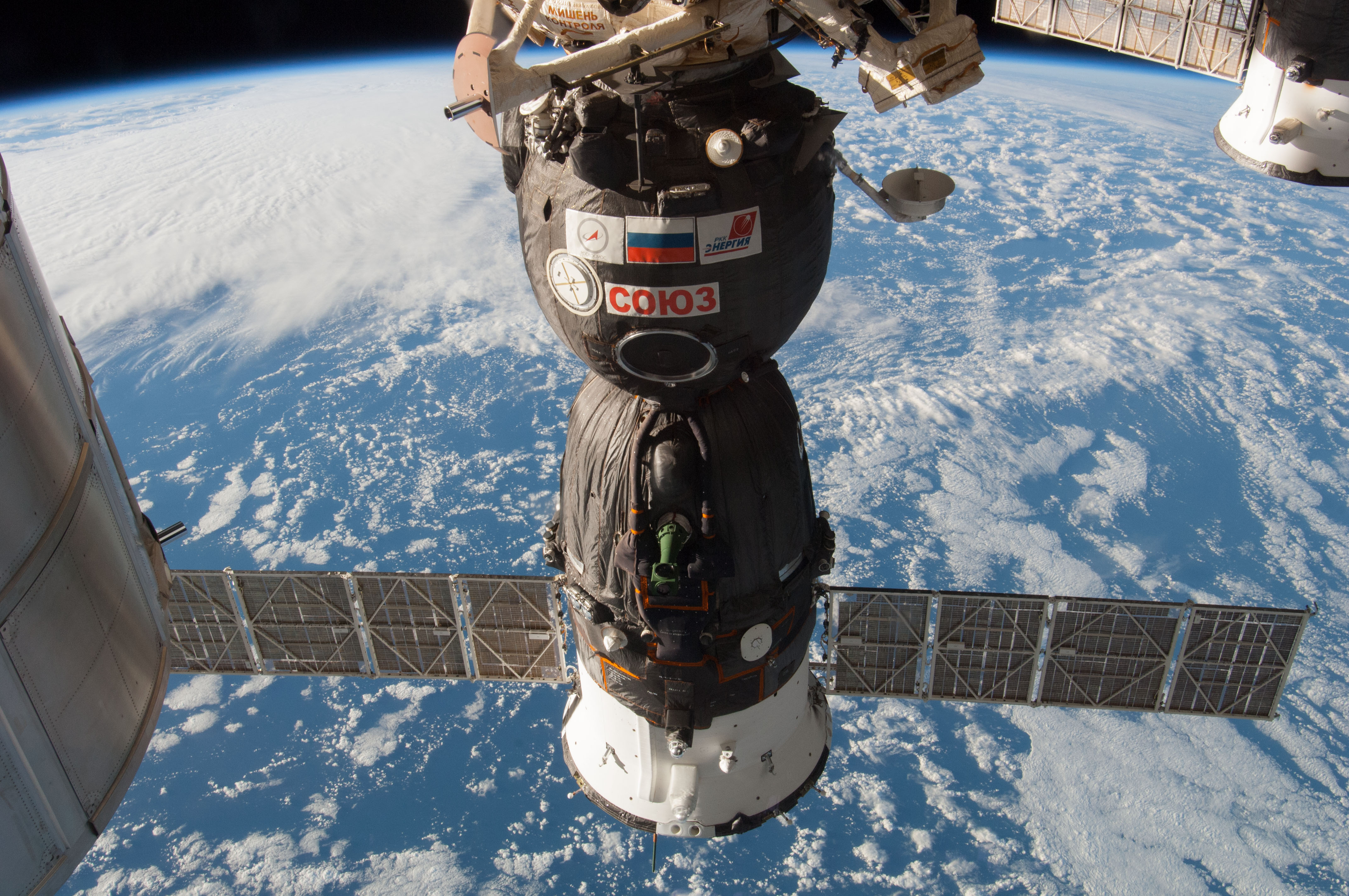 The Russian Soyuz TMA-11M spacecraft dominates this image exposed by one of the Expedition 38 crew members aboard the International Space Station over Earth on Nov. 12. Now docked to the Rassvet or Mini-Research Module 1 (MRM-1), the spacecraft had delivered three crew members to the orbital outpost five days earlier, temporarily bringing the total population to nine aboard the station.